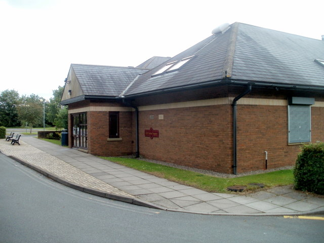 Old Station Surgery, Abergavenny Located on the north side of Brecon Road (A40), built on the site of Brecon Road railway station, which opened in 1862, closed in 1958.